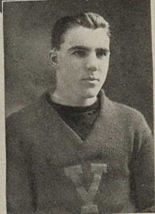 Picture of Henry Wakefield from the Commodore in 1923